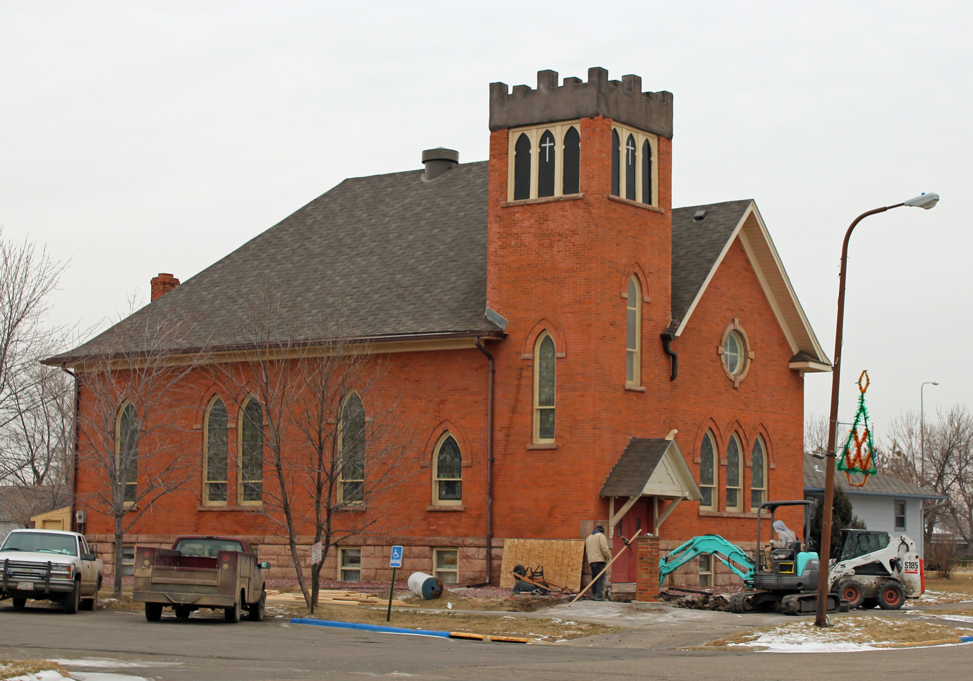 The United Church of Christ, Congregational in Fort Pierre, South Dakota. The building is listed on the National Register of Historical Places.